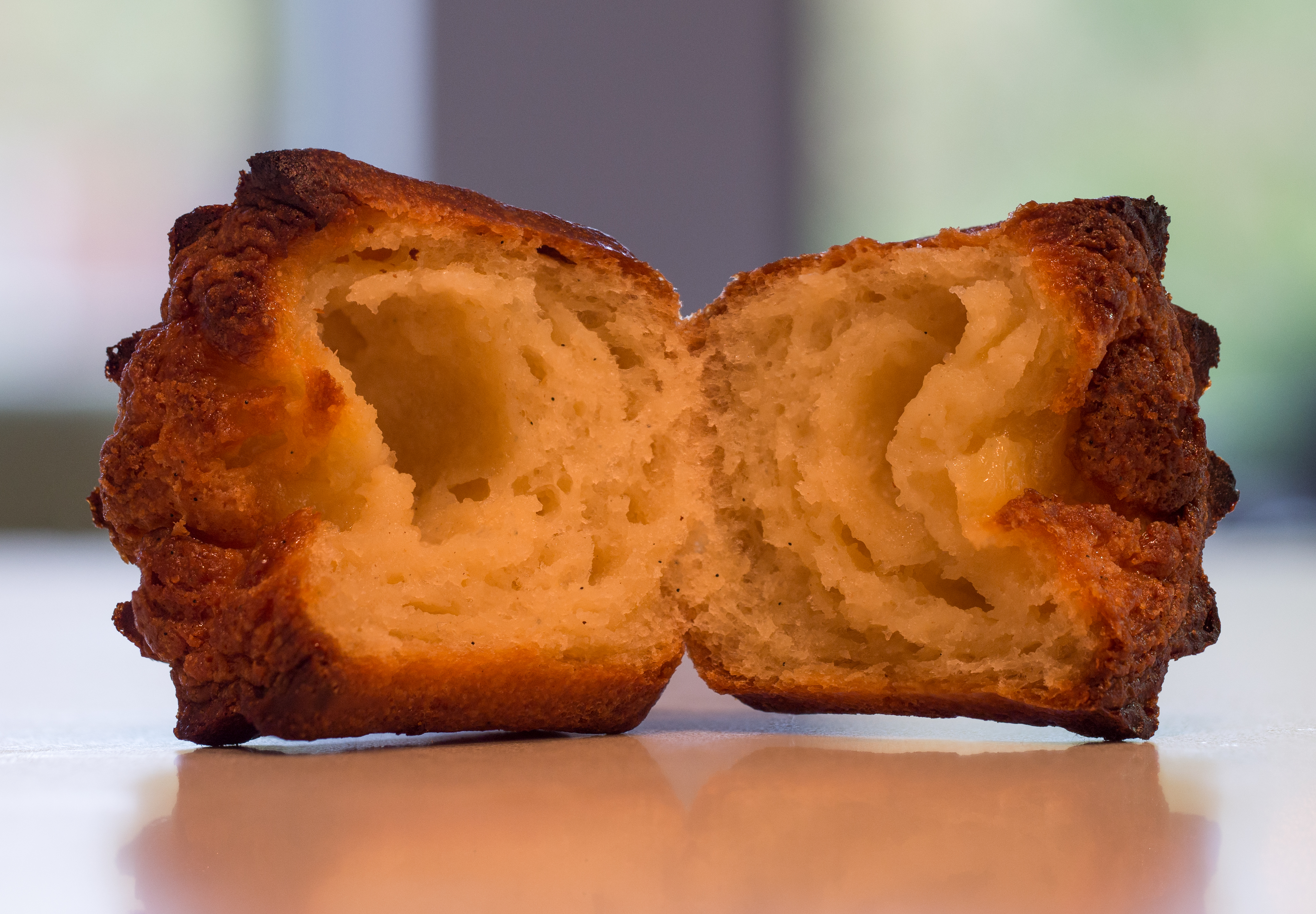 A cannele (canelé) pulled in half. This particular cannele puffed up a bit too much in the oven, leading to that large air pocket.